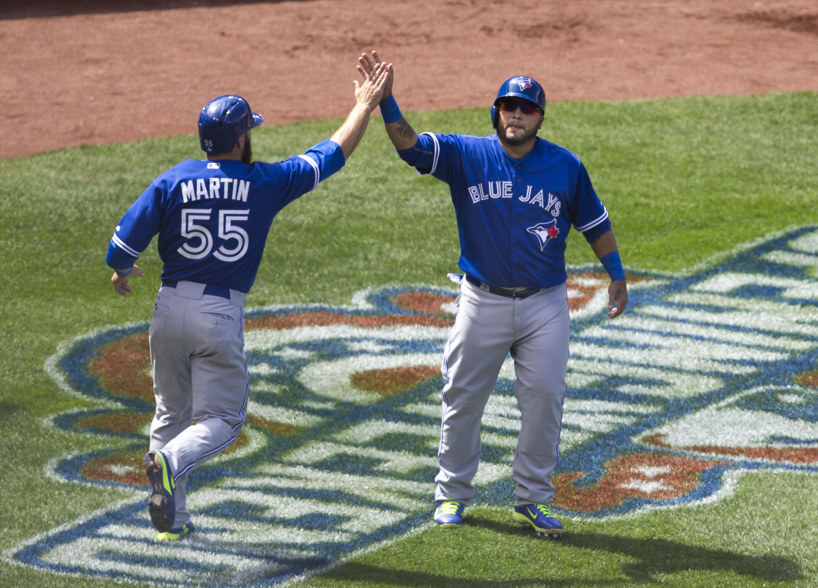 Blue Jays at Orioles 04/12/15